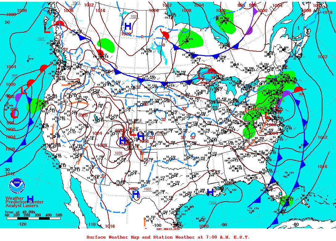 A surface weather map for 5 January 2019.